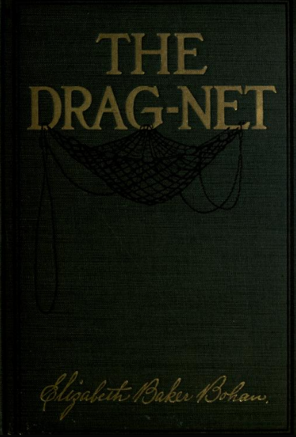 cover of "The Drag-Net", by Elizabeth Baker Bohan (1909)